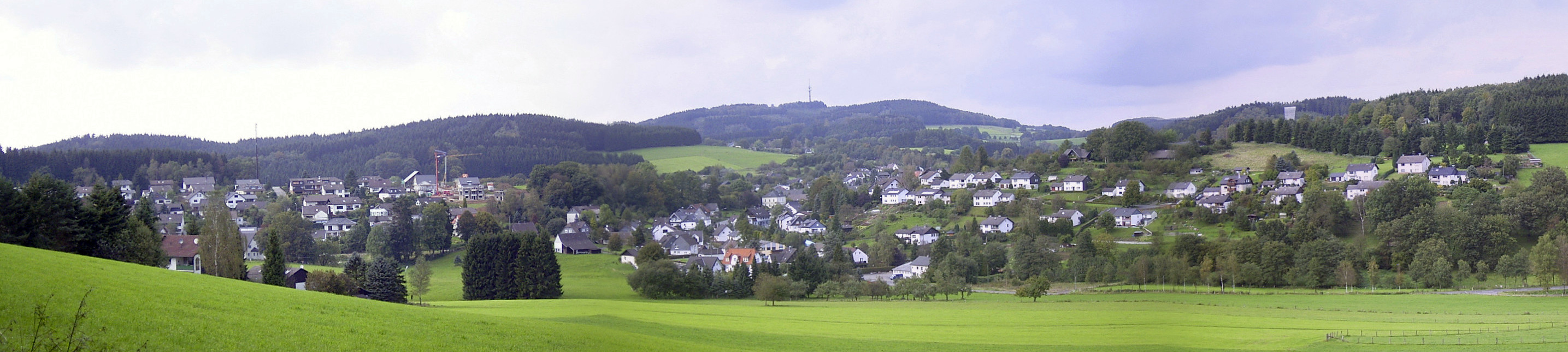 view of Strombach, district of Gummersbach, North Rhine-Westphalia, Germany